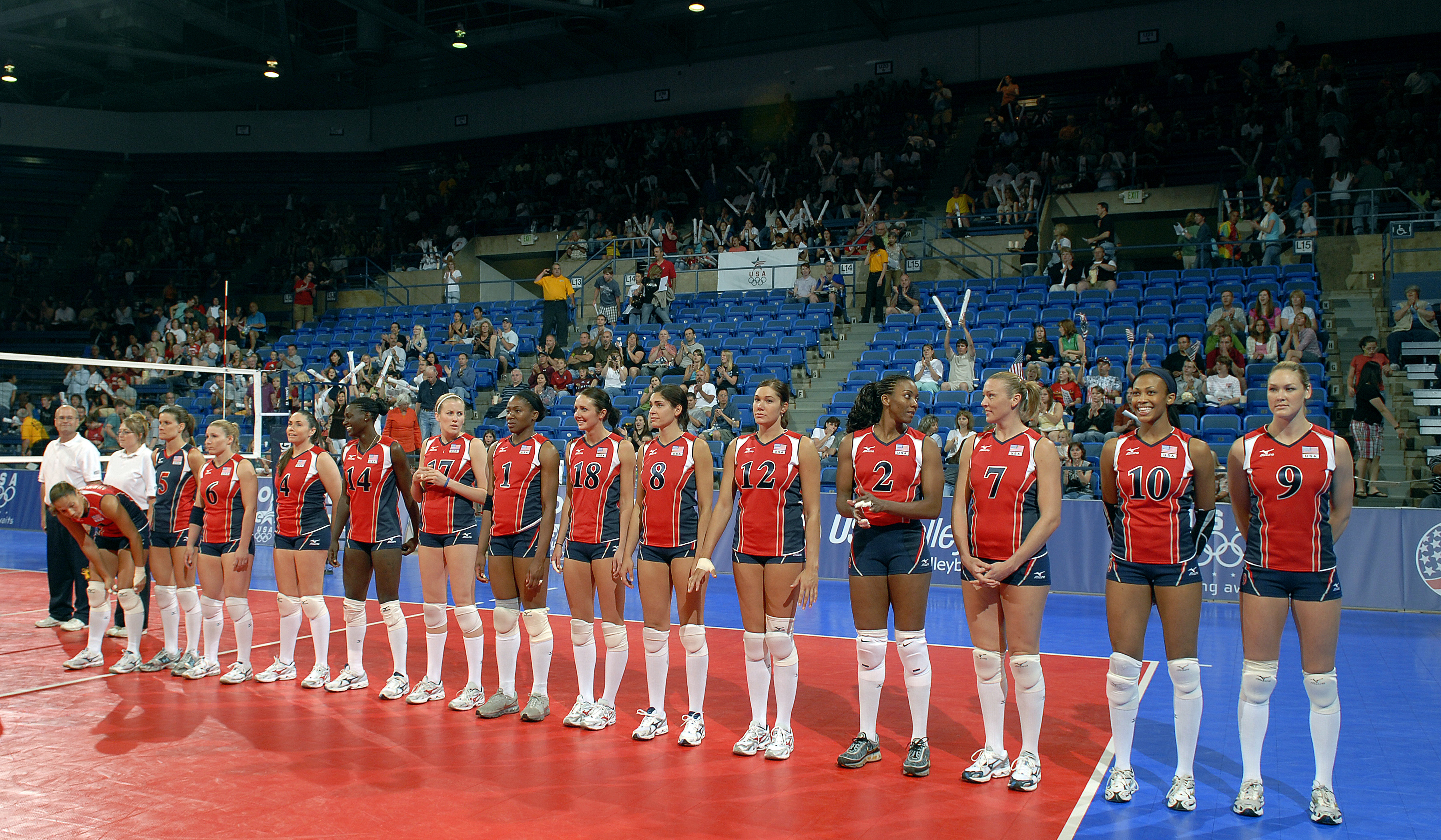 The U.S. Women's National Volleyball Team, ranked fourth in the world, stands for introductions at Clune Arena on the campus of the U.S. Air Force Academy, Colo., before an exhibition match against top-ranked Brazil June 14, 2008. Team USA is concluding a three-match 2008 U.S. Olympic Team Exhibition for Volleyball series that started June 11.